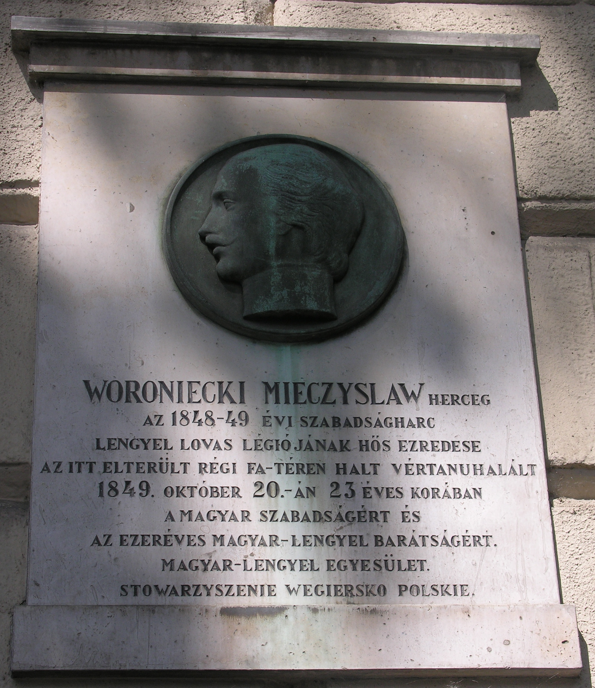 Commemorative plaque of prince Woroniecki Mieczyslaw in Budapest District V, Báthori Street No 2